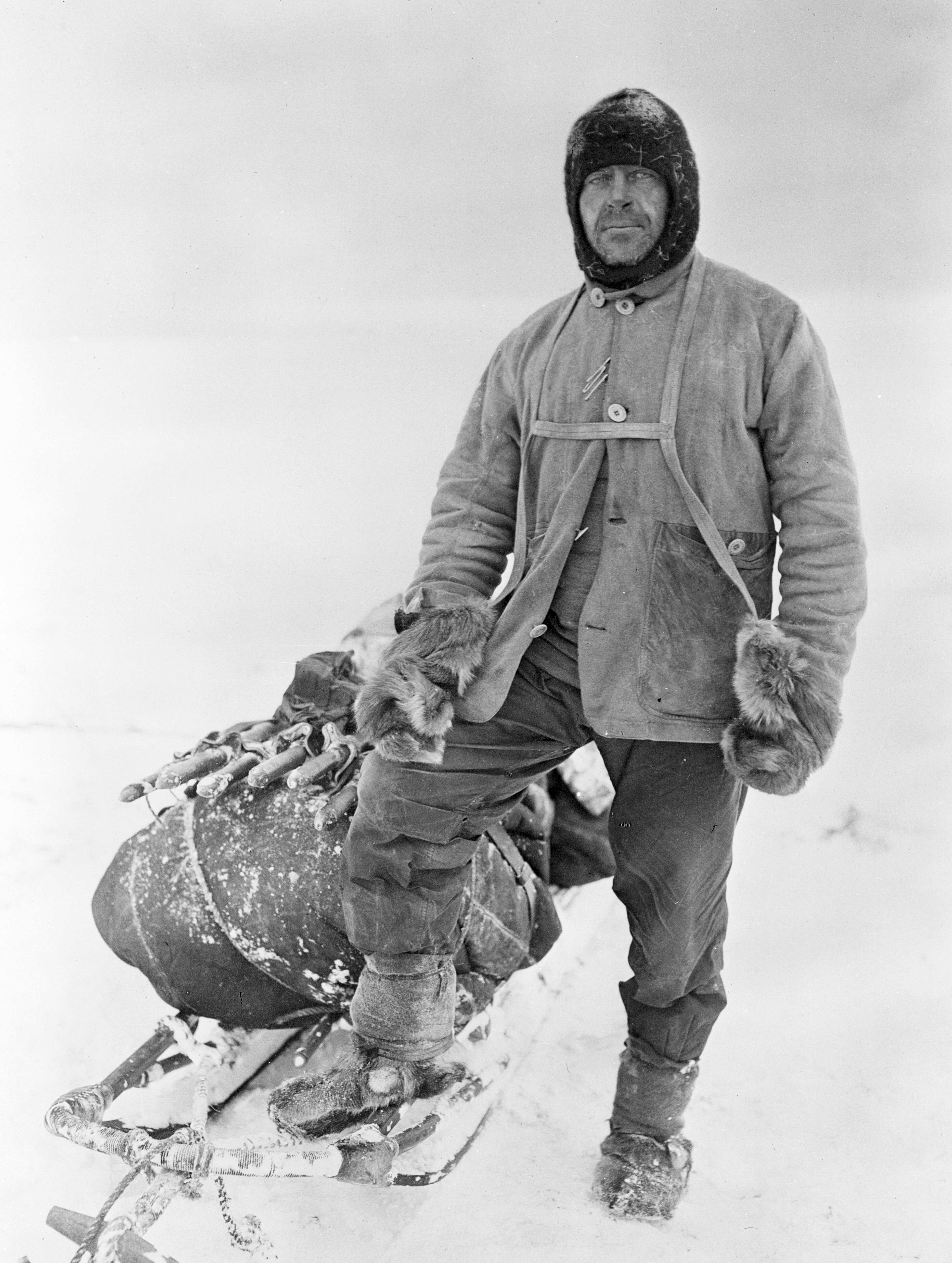 Captain Robert Falcon Scott, leader of the Terra-Nova-Expedition (1911-1913), in polar gear